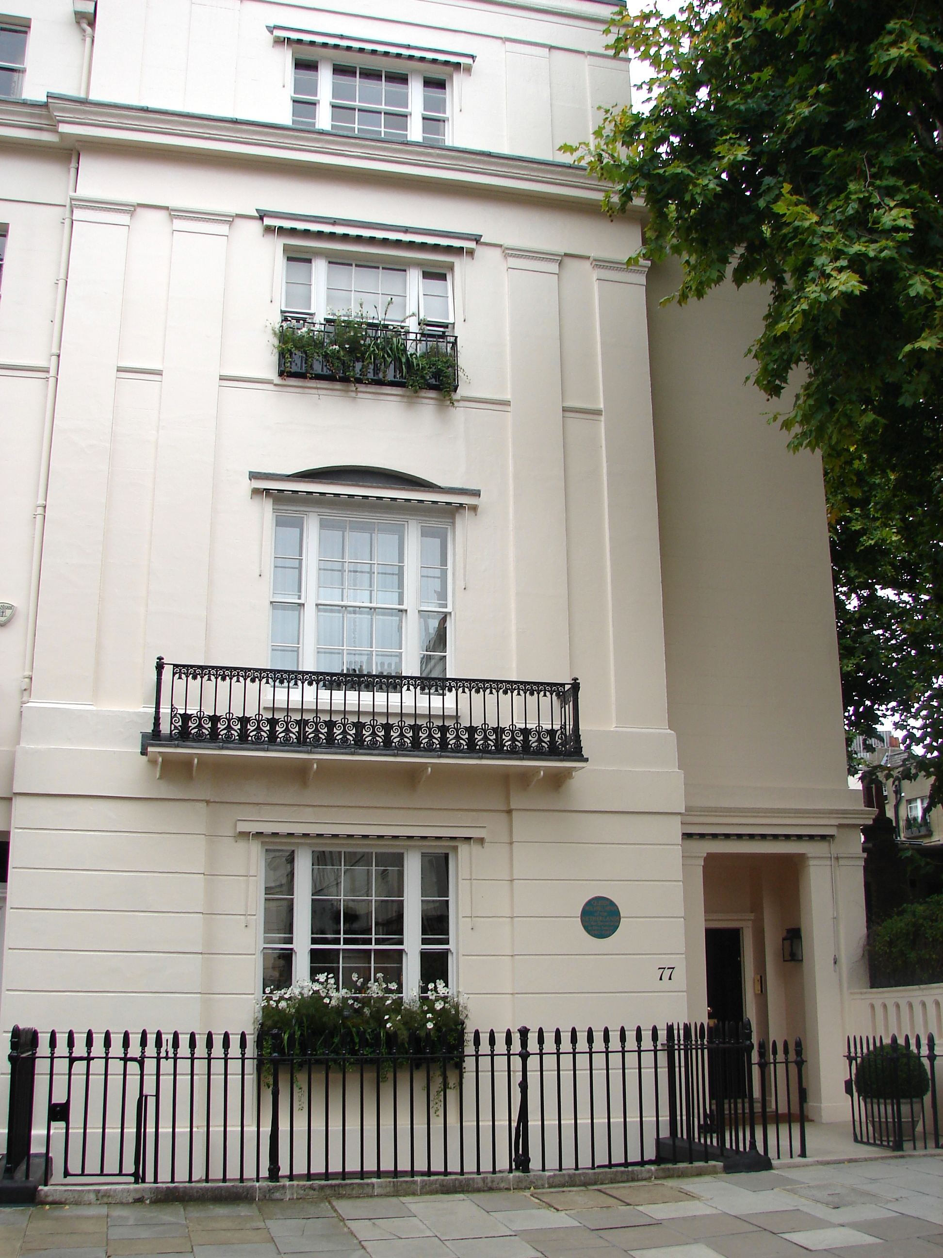 77 Chester Square, London, United Kingdom with plaque to Queen Wilhelmina